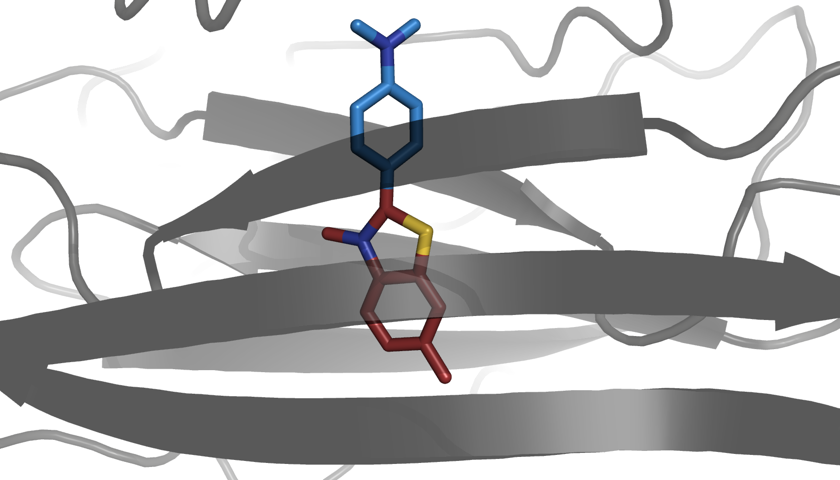 X-ray crystal structure of Thioflavin T bound to an amyloid-like oligomer of β2 microglobulin, based on coordinates from PDB ID 3MZT [1], [2] - Created by user Ignoramibus